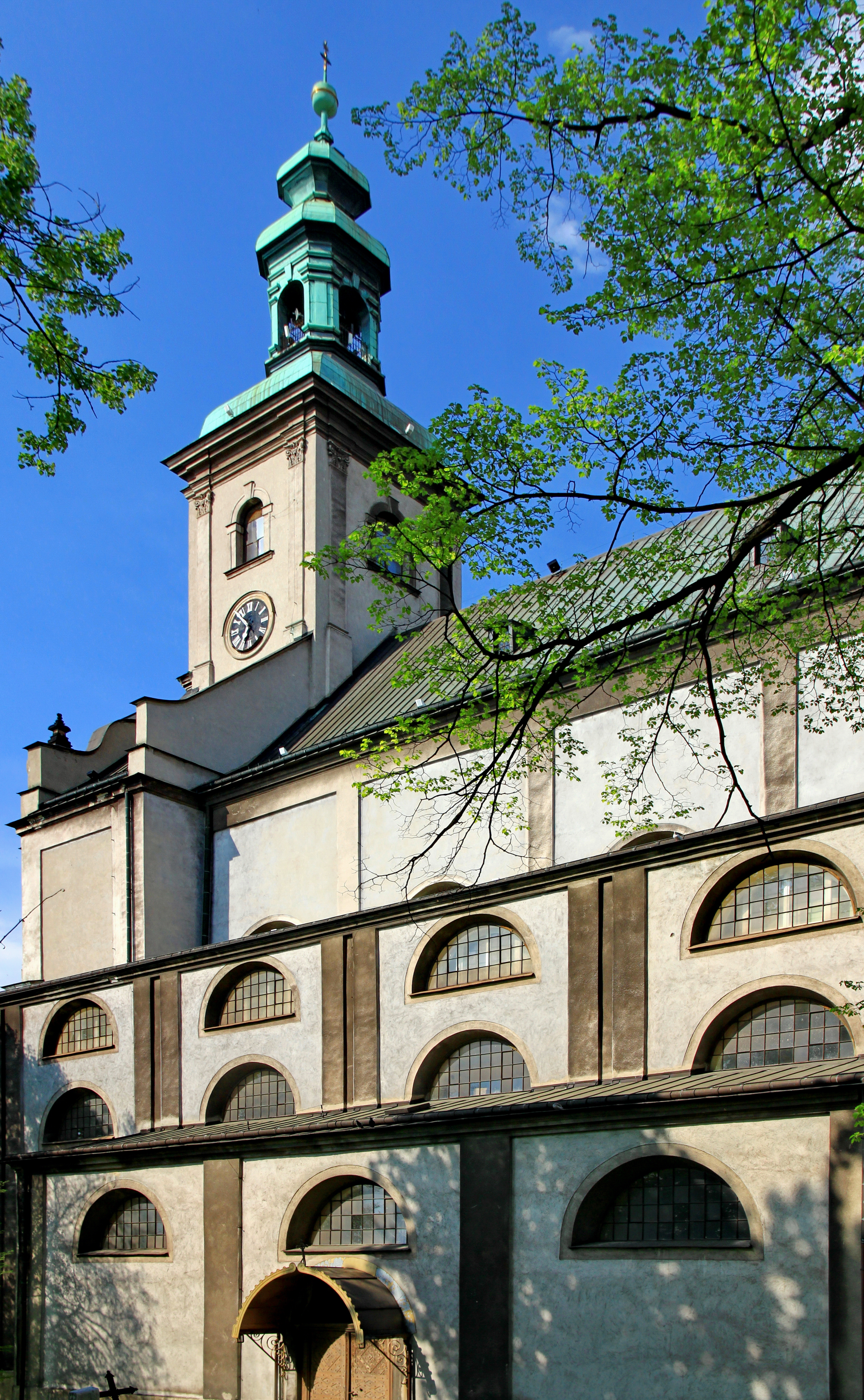 Cieszyn, lutheran Church of Jesus, build in 1709-1750